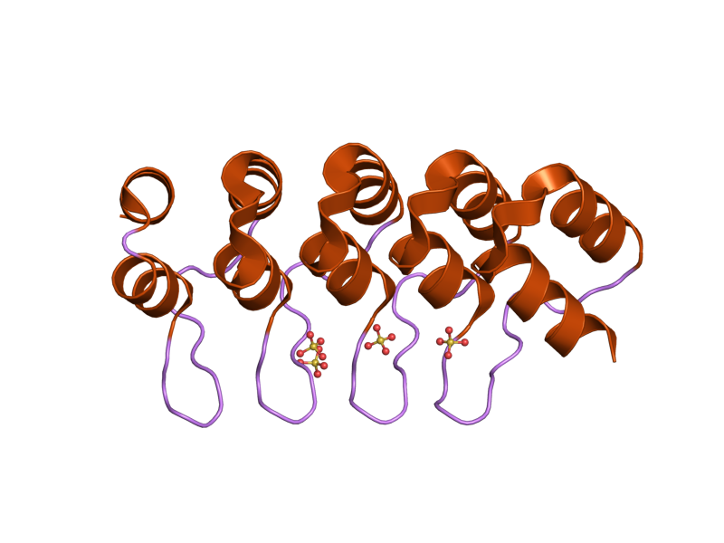 Cartoon representation of the molecular structure of protein registered with 2qyj code.